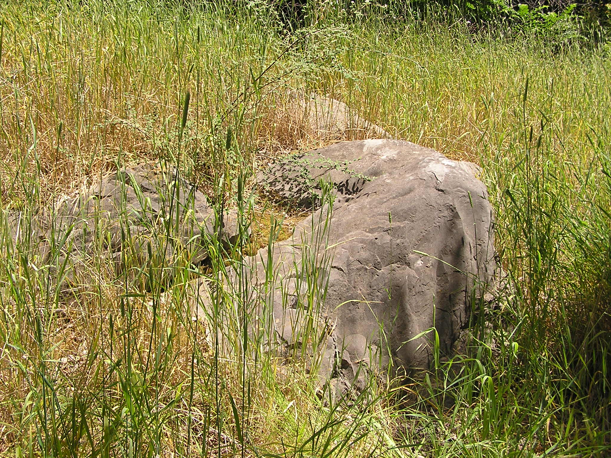 Limestone outcrop at Acton, Canberra, Australia - the district was originally called the "Limestone Plains". Picture taken by AYArktos